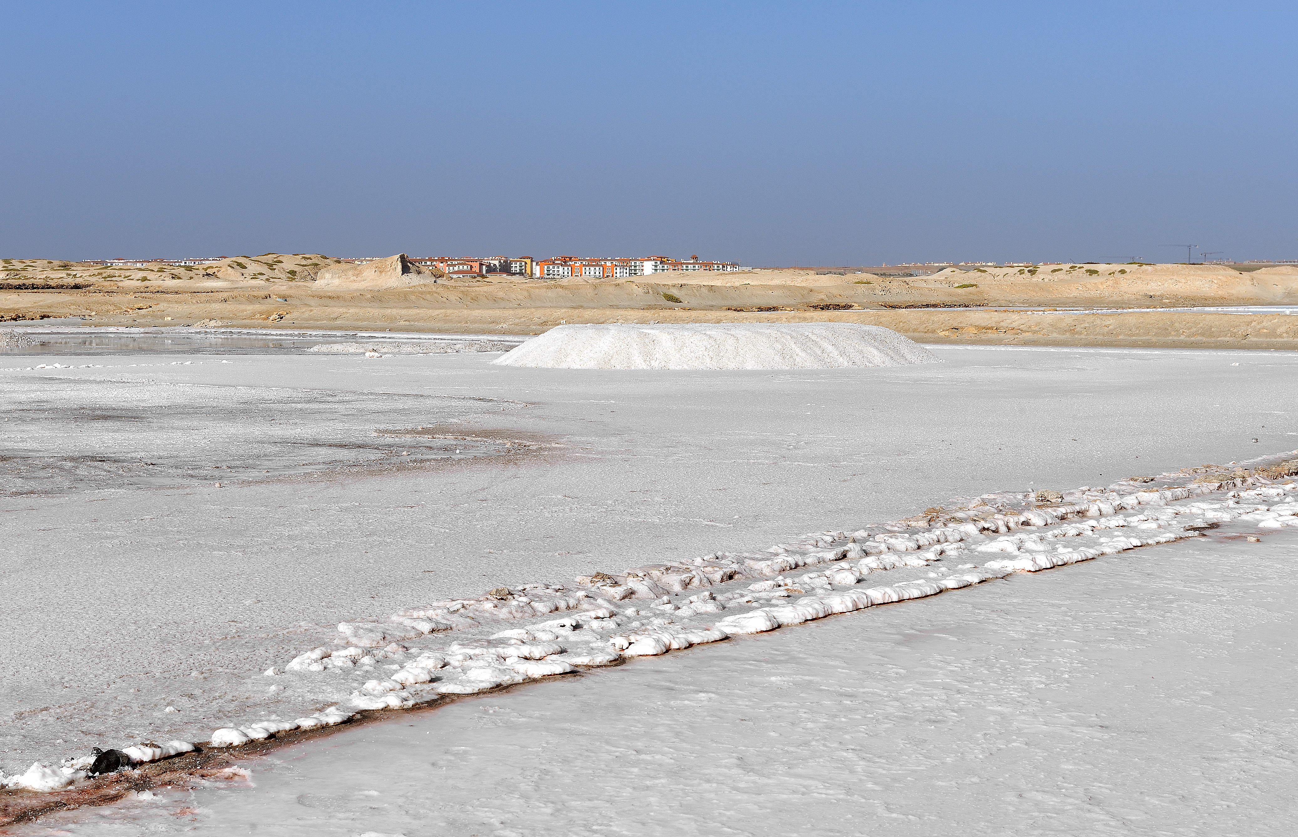 Cape Verde, isle of Sal: saltworks near Santa Maria.